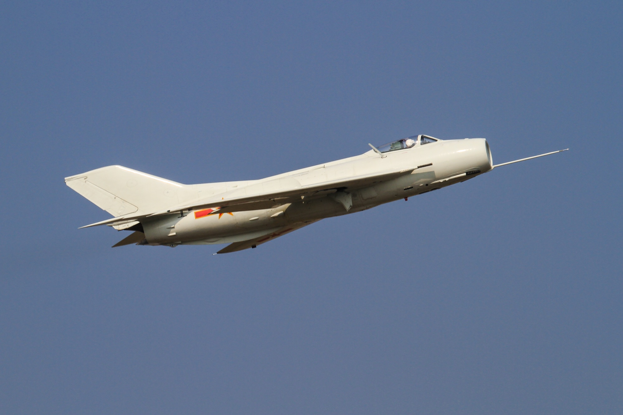 Shenyang J-6 fighter at Zhuhai Airshow 2010